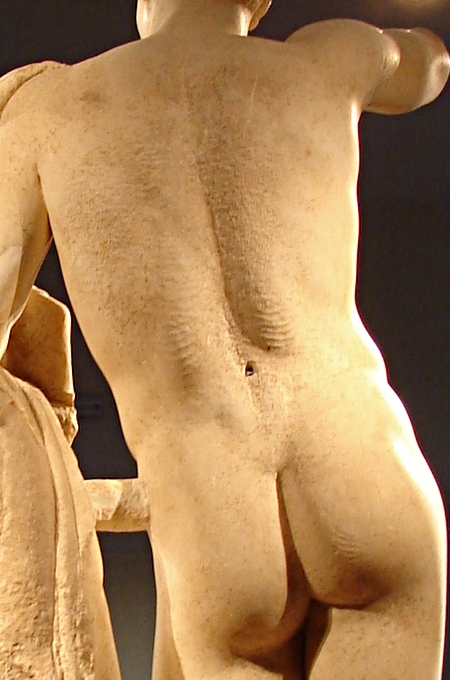 Hermes bearing the child Dionysos, detail of the back showing marks of rasp, gradine (toothed chisel) and gouge chisel. Parian marble, H. 2.15 m (7 ft. ½ in.). Archaeological museum of ancient Olympia, Greece. From the German excavations of the Heraion at Olympia, 1877.